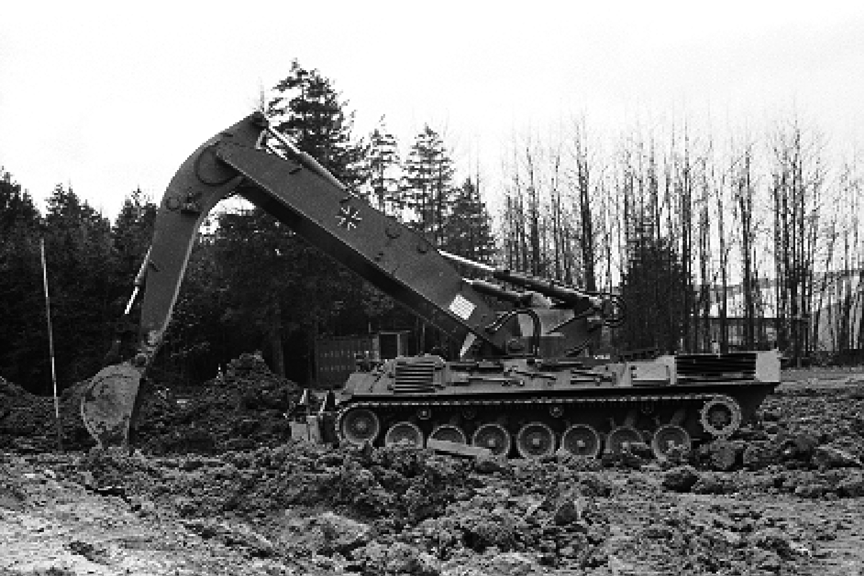 German Army Armored engineering vehicle (MAK prototype)